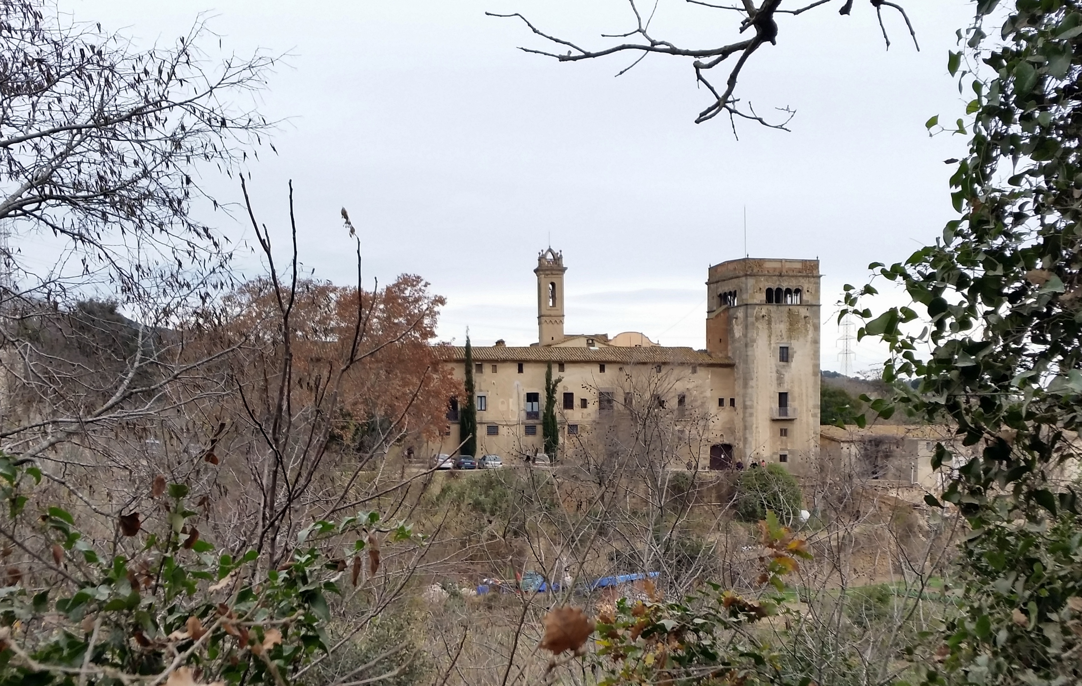 monastir of Sant Jeroni de la Murtra